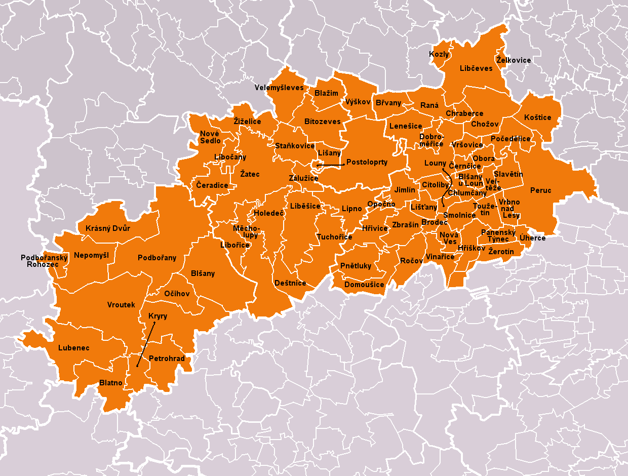 Municipalities of Louny District as of January 1, 2010 (70 municipalities in total). White lines of variable thickness show boundaries of municipalities, administrative areas, districts and regions.